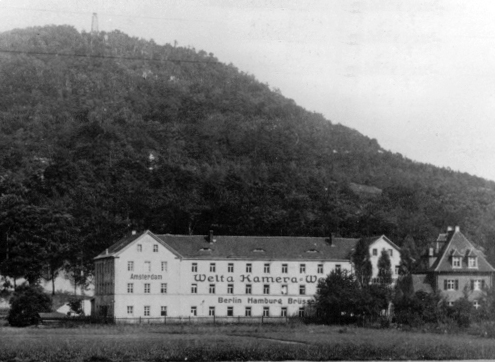 Picture of the Welta Kamera Werk in Freital (Saxony). In the back is the Windberg.